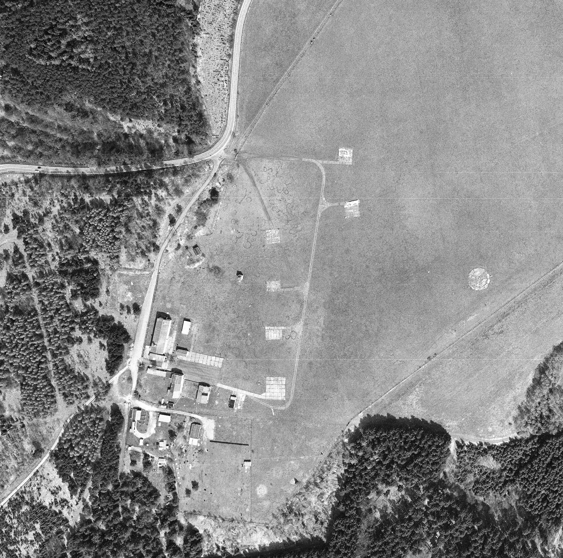 Airfield in City Meiningen in the jear 2001, Helicopter space, decommissioned in 1991.